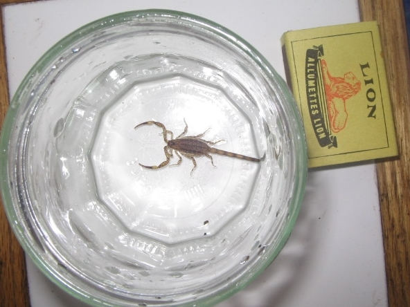 Isometrus maculatus Scorpion, picture taken in RéunionUnknown